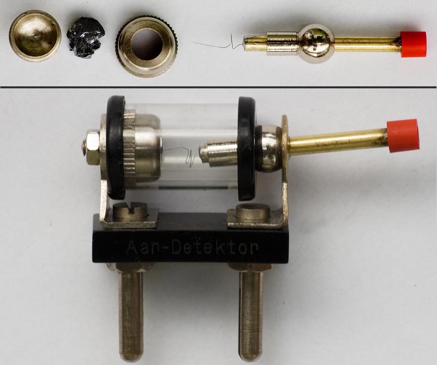 Galena cat's whisker detector, an antique radio component, showing parts. This example is a modern reproduction. It was used as the detector in crystal radios from about 1906 to the 1940s, to rectify the radio signal, extracting the audio signal from the radio frequency carrier wave. It consists of a crystal of the mineral galena whose surface is touched by a fine metal wire. The device is extremely sensitive to the position of the wire on the crystal and can be disrupted by the slightest vibration, so it is made adjustable. The user finds a "sweet spot" on the crystal by trial and error before each use by dragging the wire across the crystal face until the radio begins working. (top left) Galena crystal and capsule used to hold it, (top right) "cat's whisker" wire contact on adjustable arm, (bottom) assembled device